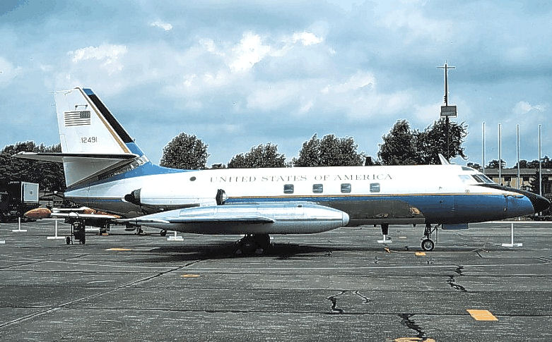 VC-140 of the 435th Tactical Airlift Group - Rhein-Main AB, West Germany